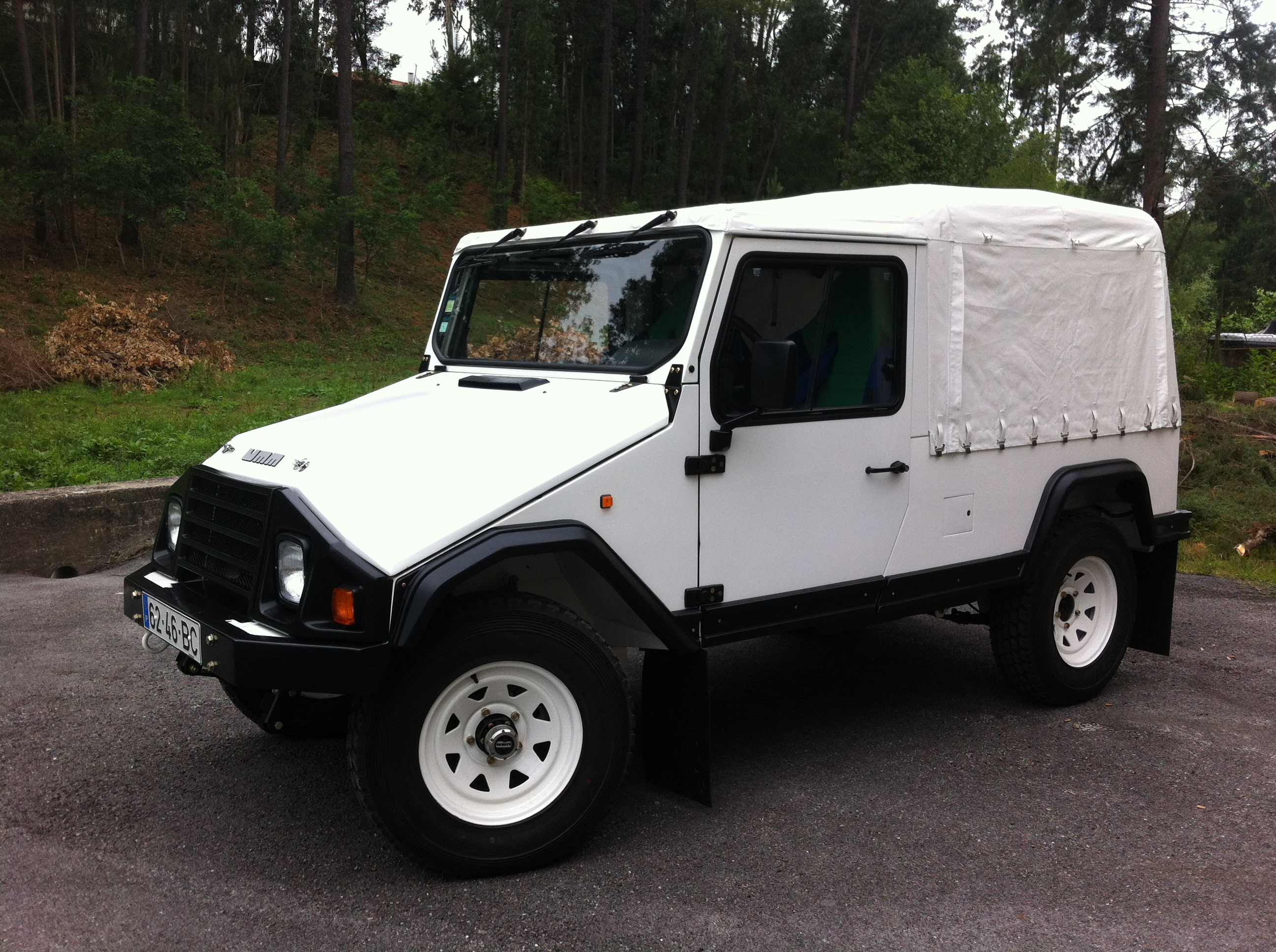 UMM Alter trofeu 1992